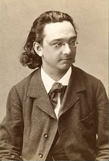 Austrian composer Josef Pembaur Sr. (1848-1923)